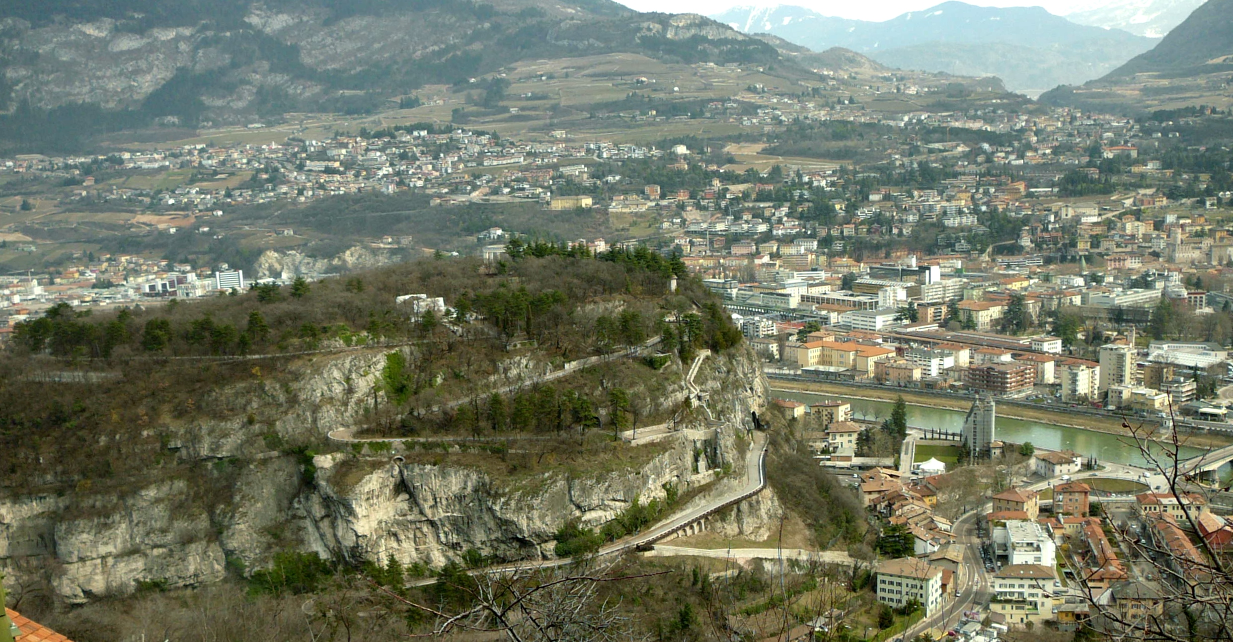 Trento (Italy): view of the southwestern side of Doss Trento